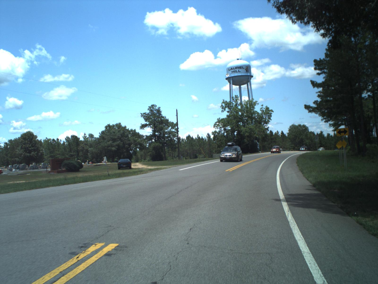 SR 85 northbound as Almarante, 57060000 mile 14.870 (frame 2995)